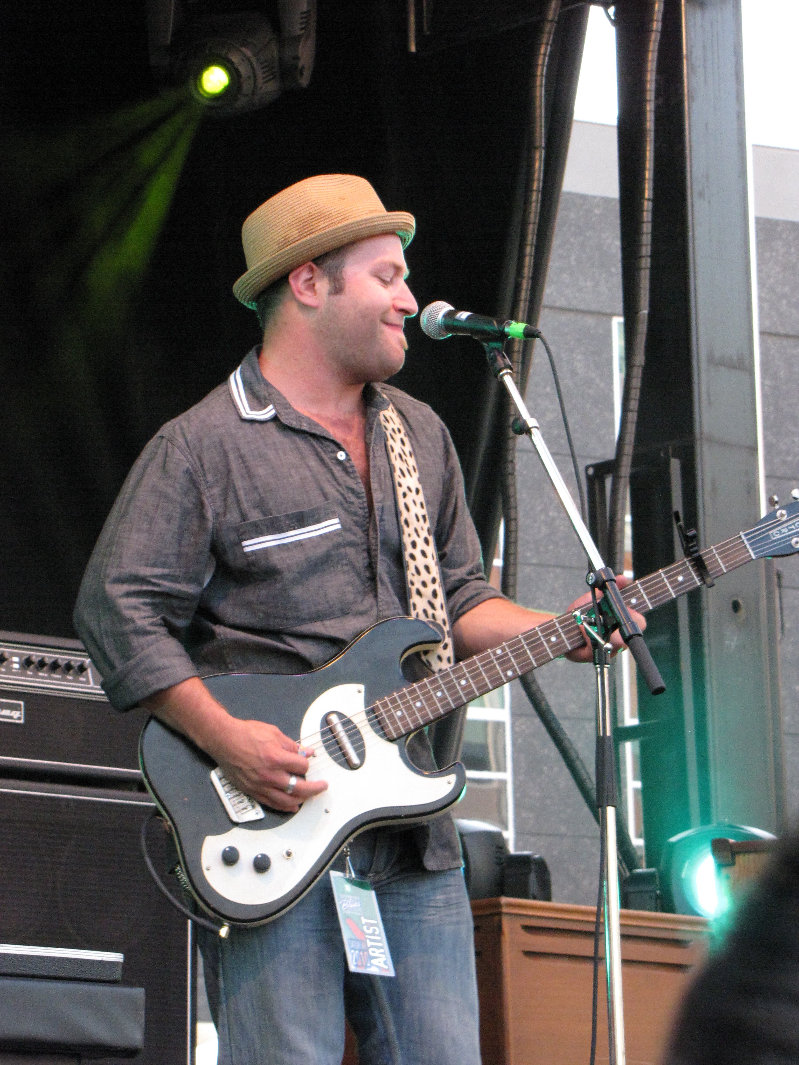 Canadian blues band Monkeyfest performing at the Kitchener Blues Festival in 2010